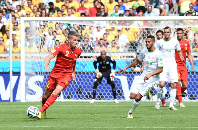 Riyad Mahrez (left) and Nabil Bentaleb (right) prevent Belgium's Toby Alderweireld from getting close to keeper Rais M'bohli. رياض محرز (بسار) ونبيل بن طالب (يمين) يمنعان لاعب بلجيكا توبي آلدرويرلد من الاقتراب من حارس المرمى الجزائري رايس مبولحي. Riyad Mahrez (à gauche) et Nabil Bentaleb (à droite) empêchent le Belge Toby Alderweireld de s'approcher du gardien Rais M'bohli.